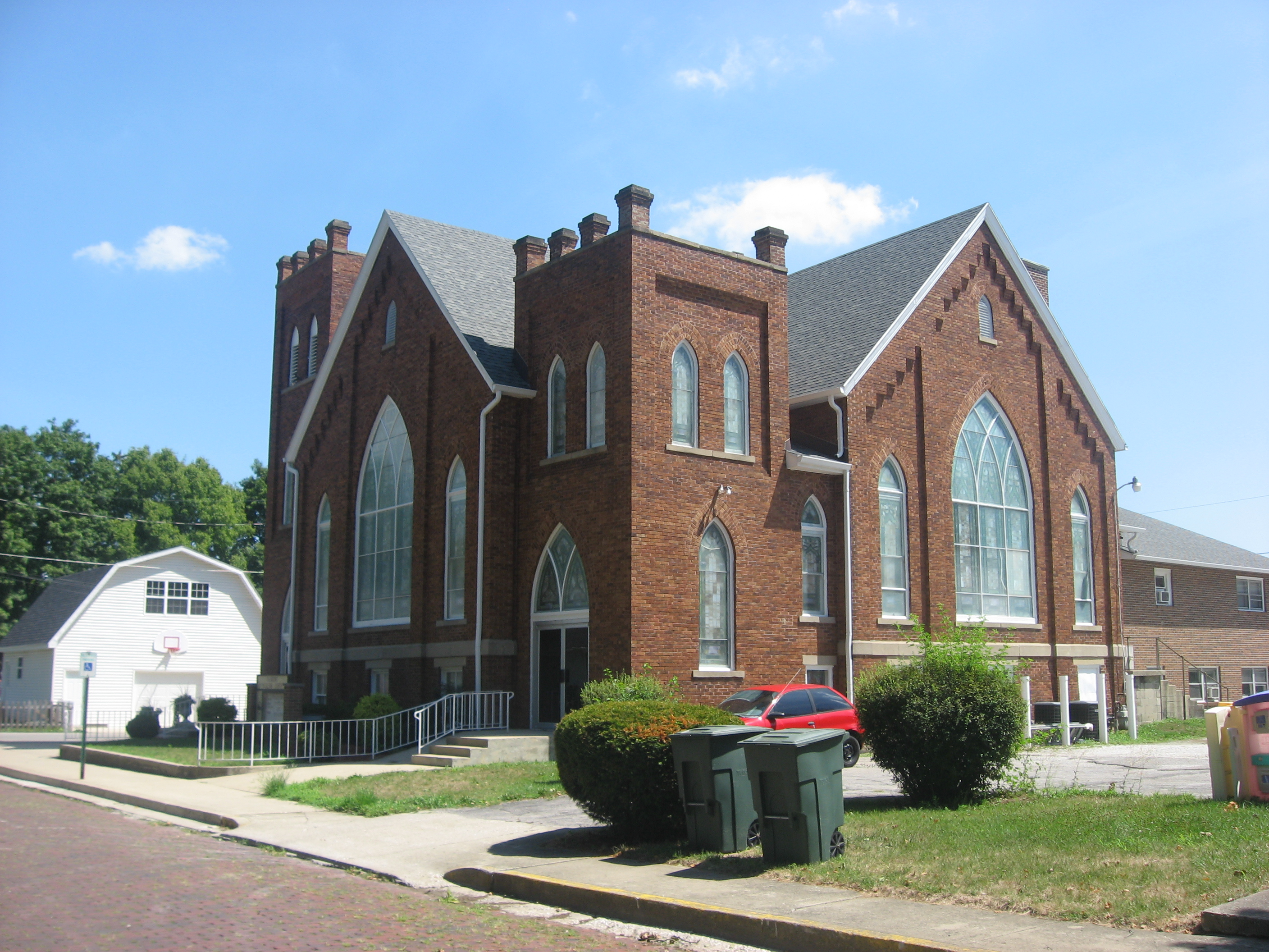 Front and southern side of the Fairmount Wesleyan Church, located at 304 N. Walnut Street in Fairmount, Indiana, United States. Built in 1916, it is part of the Baldwin Addition Historic District, a historic district that is listed on the National Register of Historic Places.